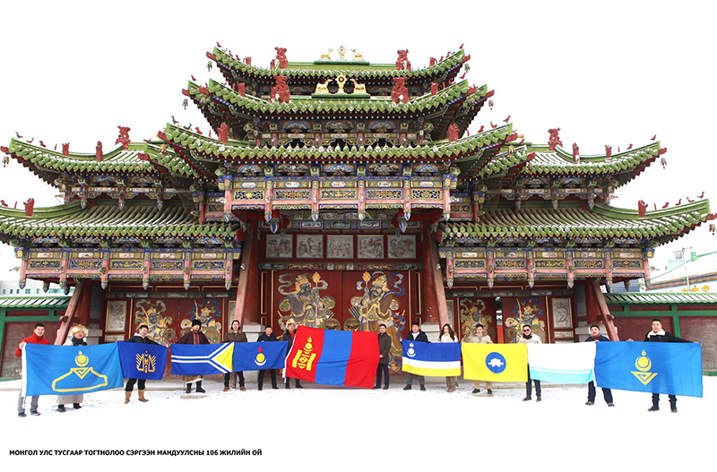 Монгол Туургатан